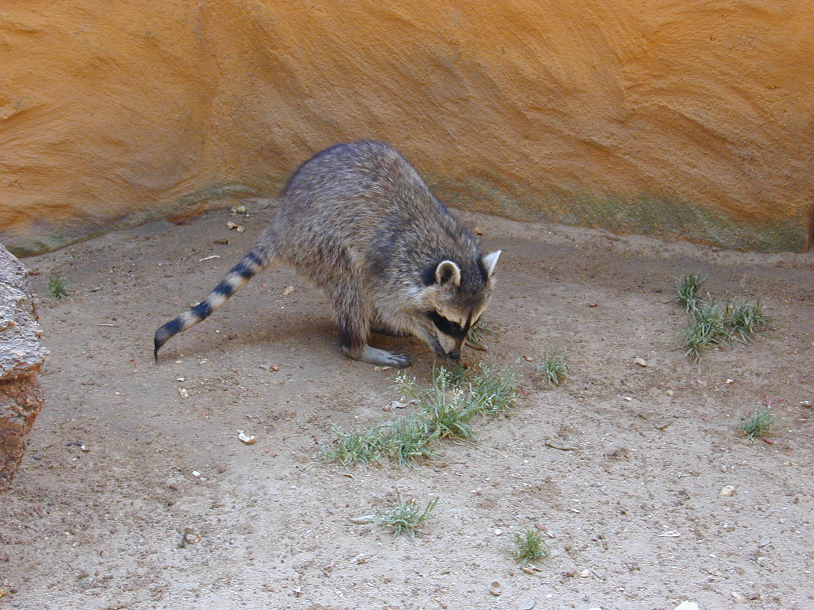 Raccoon (Procyon lotor) at the Touroparc zoological garden in Romanèche-Thorins (France).